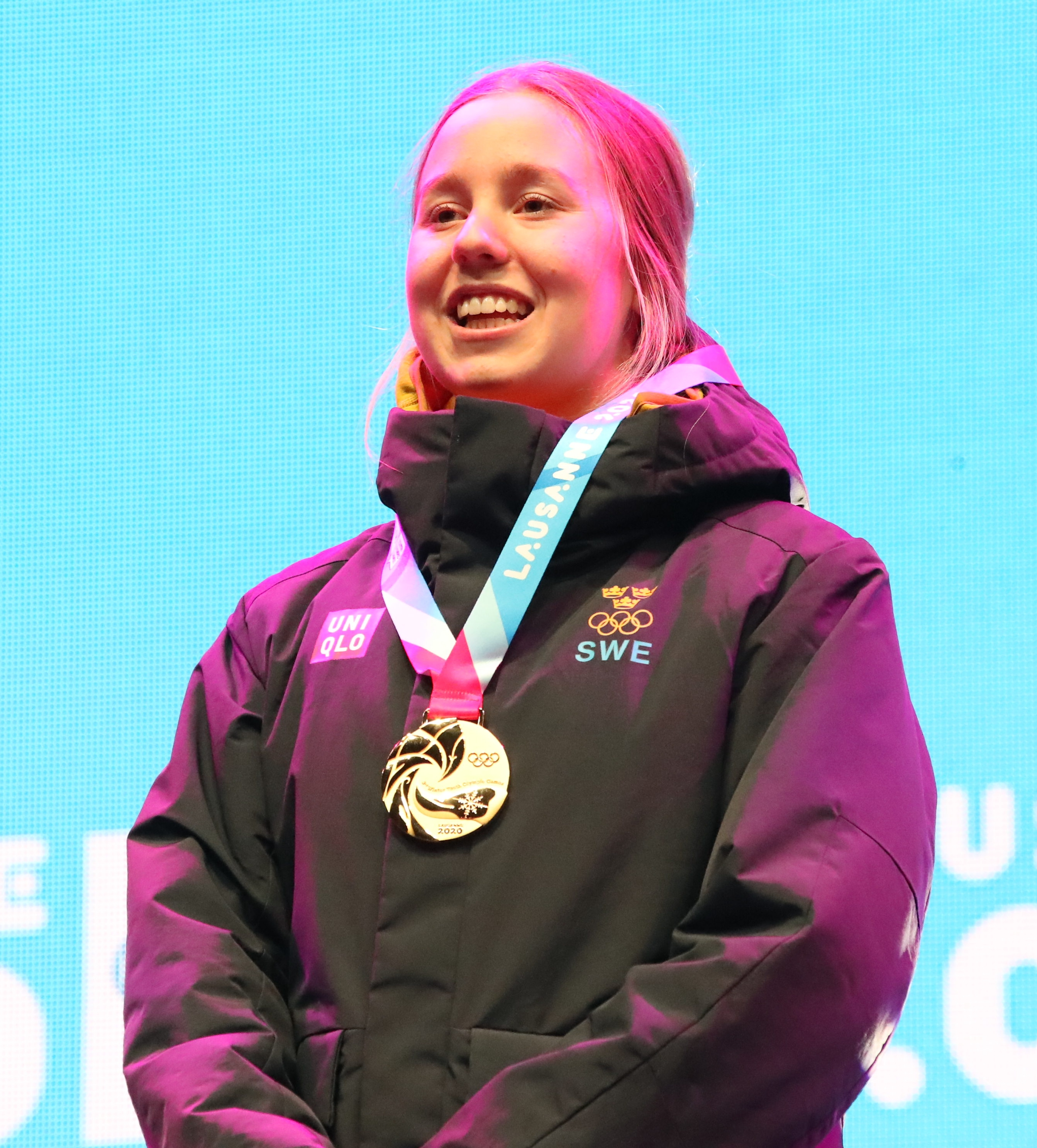 Medal Ceremony Day 5, 2020 Winter Youth Olympics in Lausanne